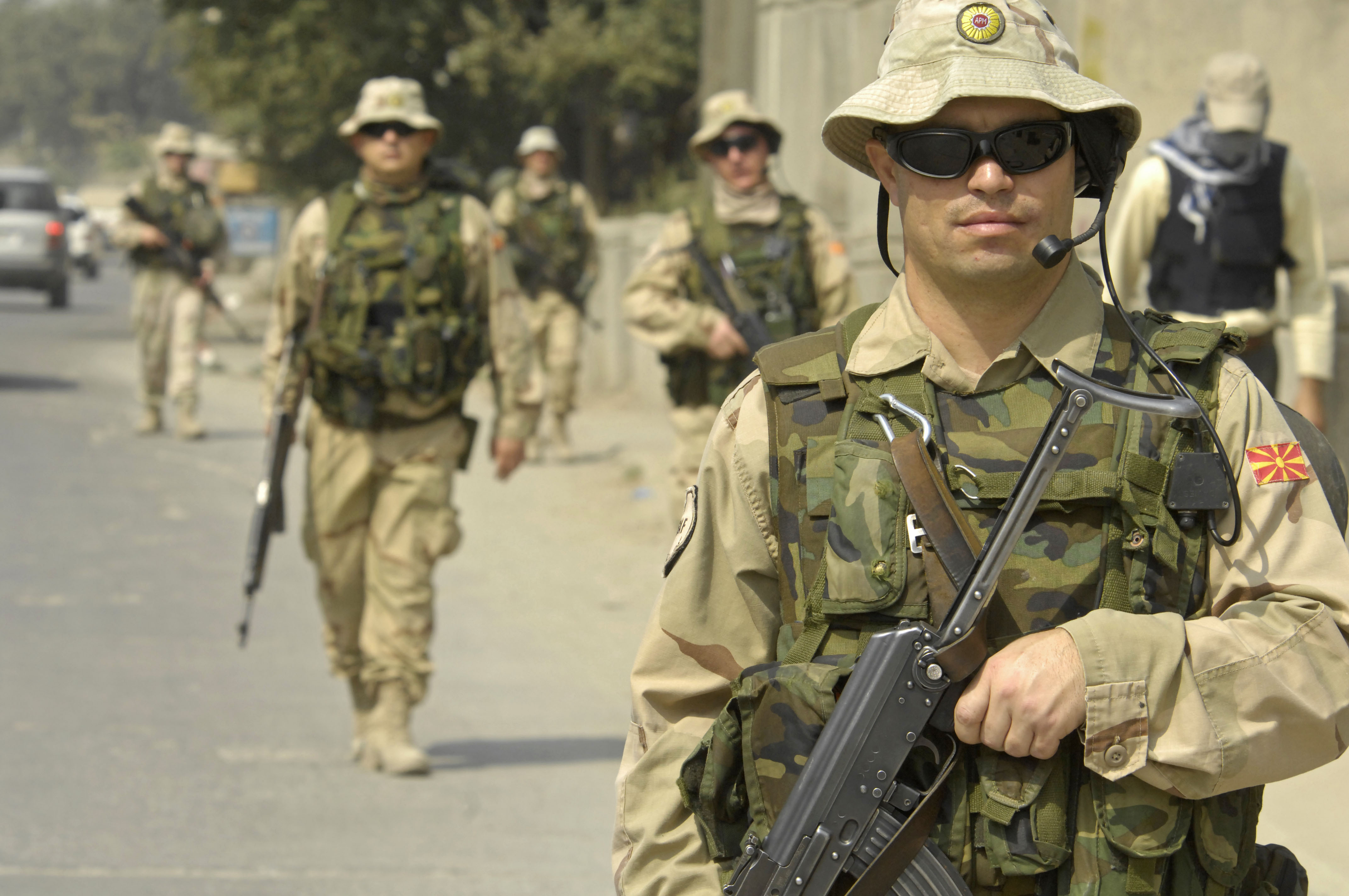 Soldiers from the Republic of Macedonia patrol the streets of Kabul, Afghanistan, October of 2008. Photo by John Scott Rafoss of the United States of America.